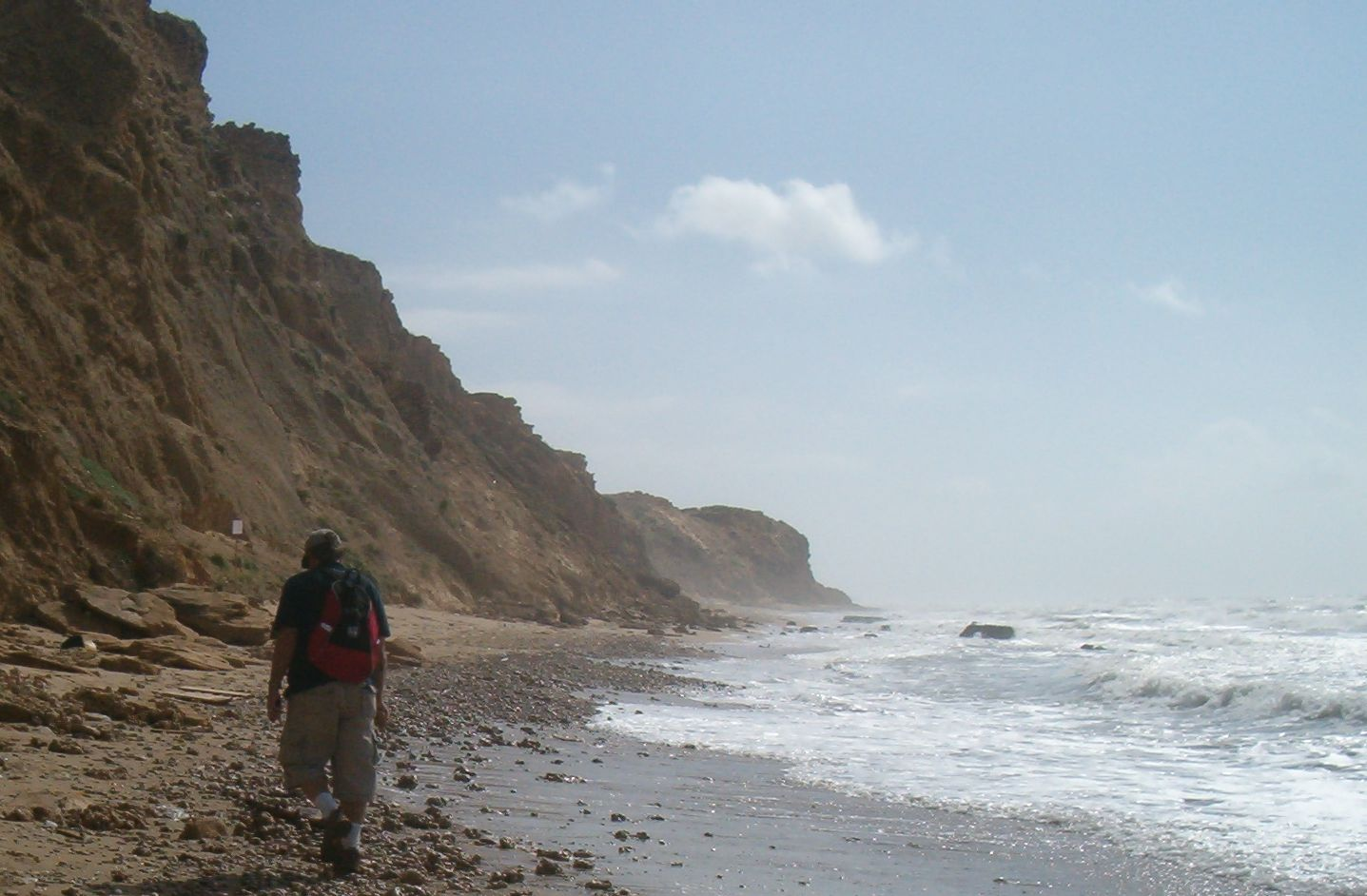 Hiking the Israel National Trail along the coast of the Mediterranean between Netanya a Herzliya in the center of Israel